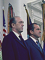 Danish Prime Minister Hilmar Baunsgaard (left) during a visit to the US in 1970 with President Richard Nixon